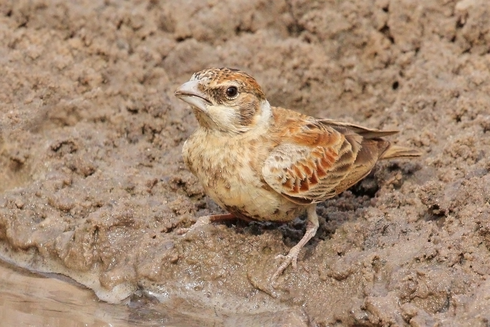 Chestnut-backed sparrow-lark (Eremopterix leucotis melanocephalus) female, Senegal